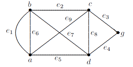 Graph-Walk-trail-path